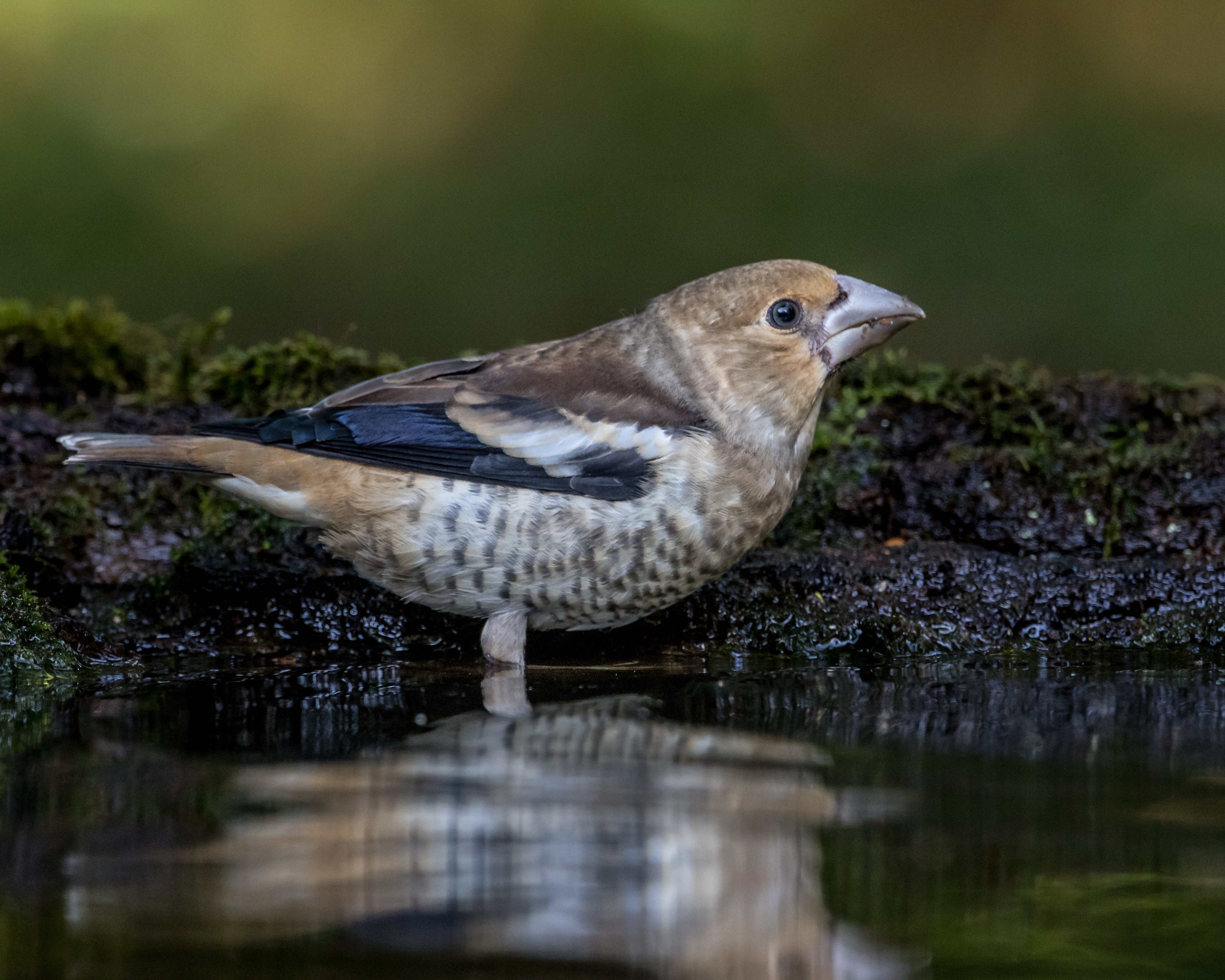 Completing the set. Taken in Hungary.